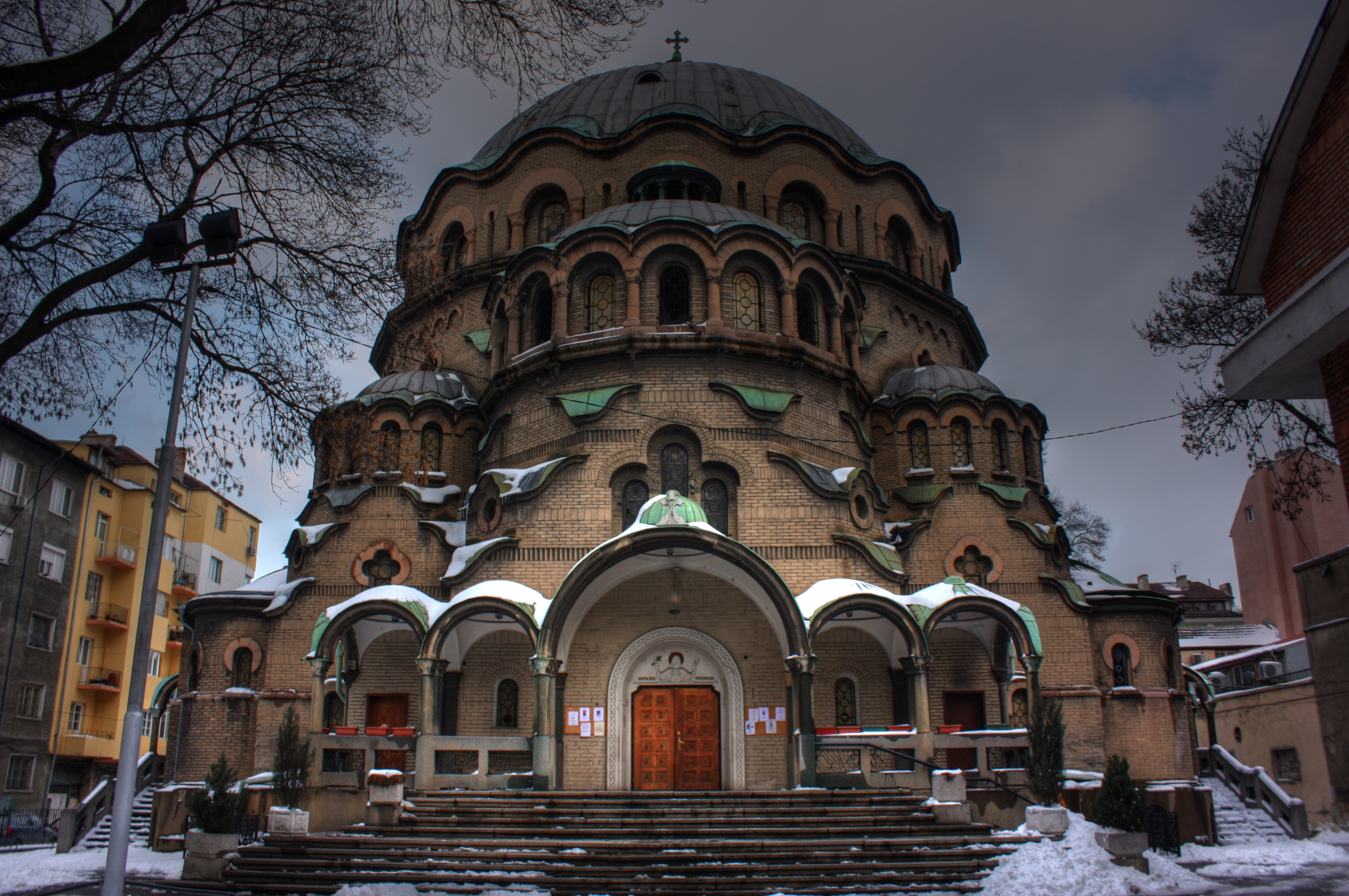 The church of Cveta Paraskeva is the third biggest church in Sofia, Bulgaria... The church of the Great Maryr Paraskevi, Sofia, Bulgaria